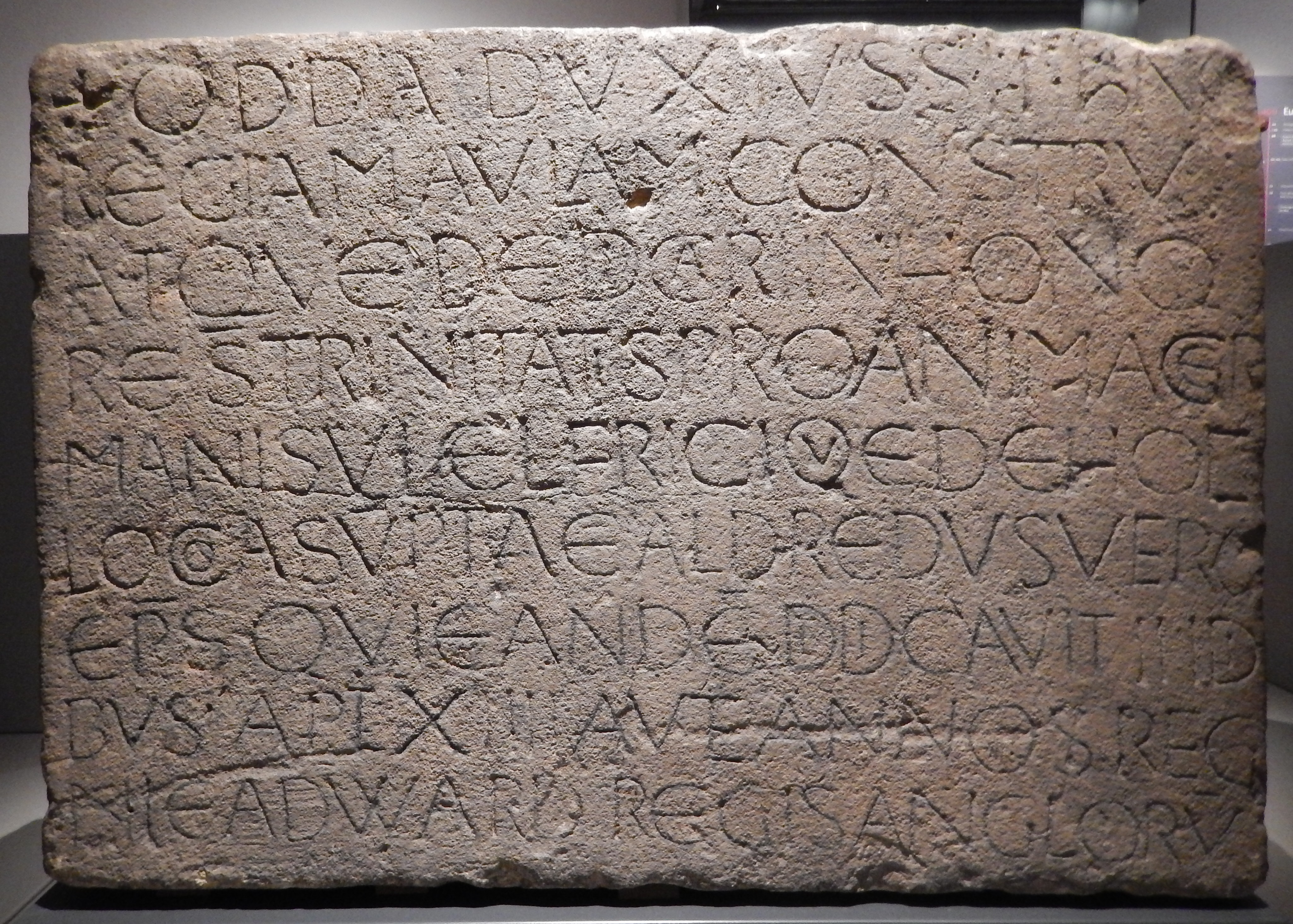 Anglo-Saxon dedication stone from Odda's Chapel, Deerhurst, Gloucestershire, displayed in the Ashmolean Museum in Oxford. It is a limestone slab, inscribed in Latin in AD 1056. The stone was found near Deerhurst in 1675. Its Ashmolean Museum number is AN1896-1908 M 300.